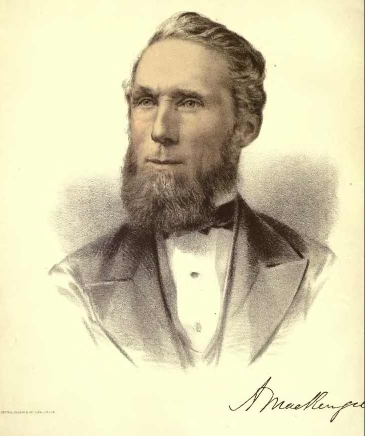 Canadian politician Alexander Mackenzie